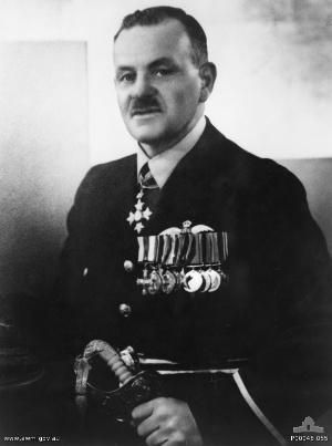 Studio portrait of Air Commodore Raymond James Brownell CBE MC MM, a senior Royal Australian Air Force officer of the Second World War and First World War flying ace.